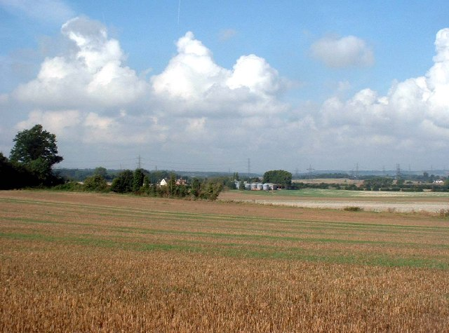 Jeskyn's Farm, near Cobham in Kent. View from the east end of the farm, looking towards the farm buildings and grain silos in the distance